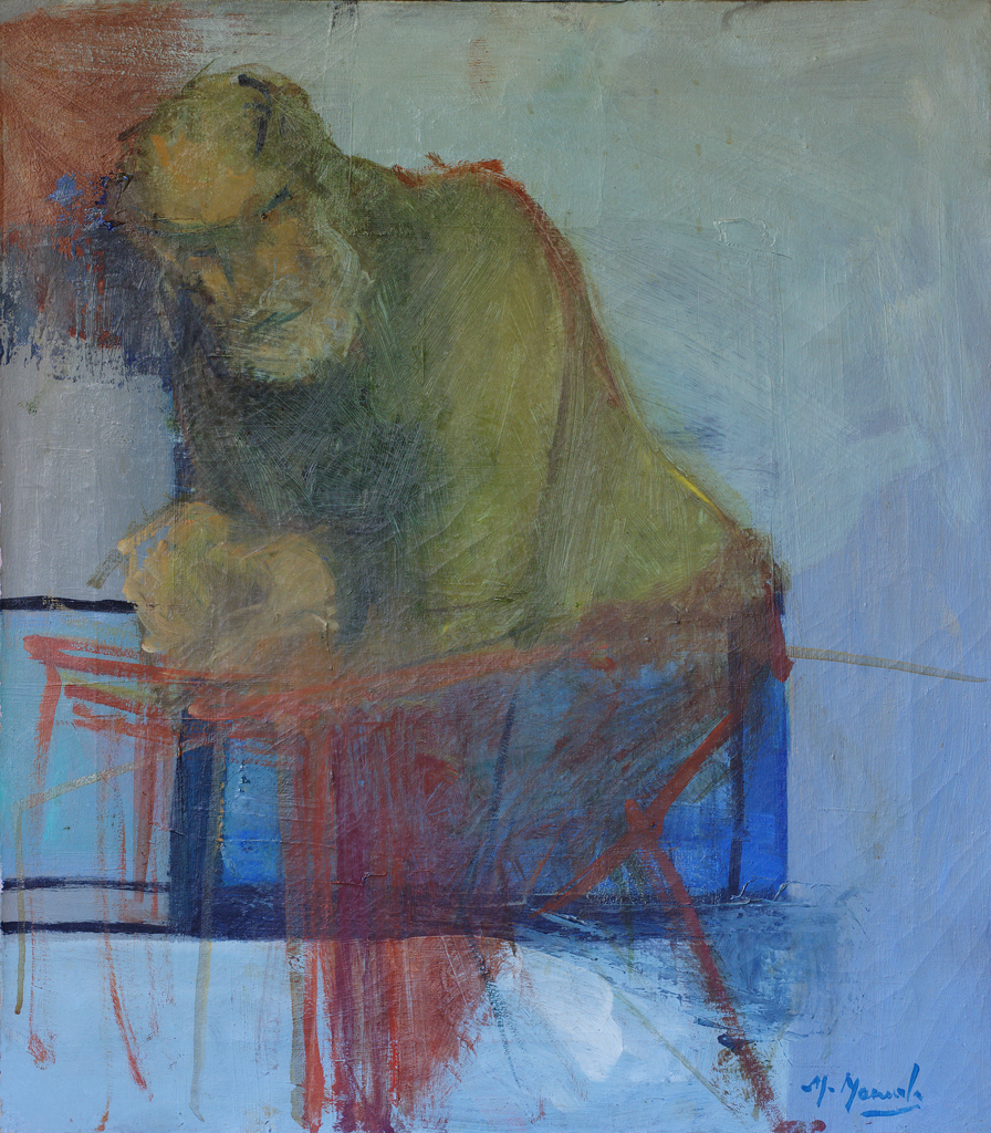 Mr.António - Oil on canvas